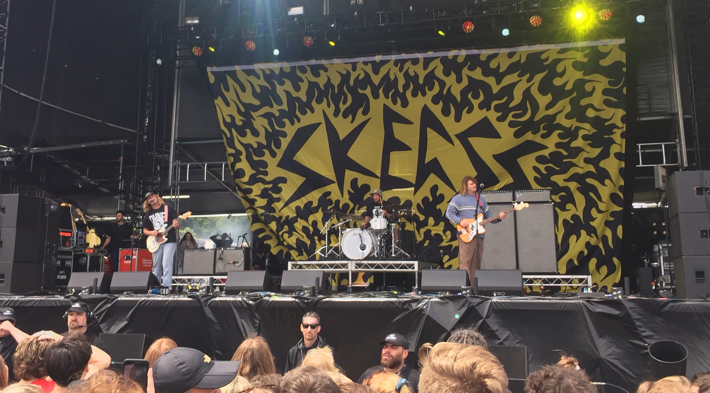 Skegss live at Good Things Festival in Melbourne, Australia (December 6, 2019)